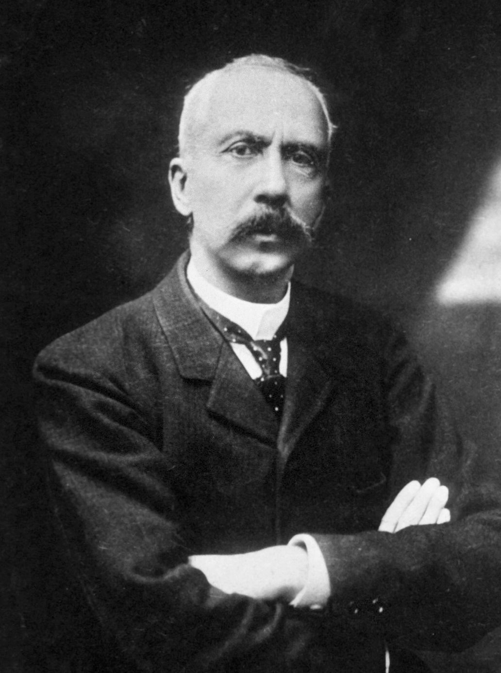 Charles Robert Richet (August 25, 1850 – December 4, 1935)